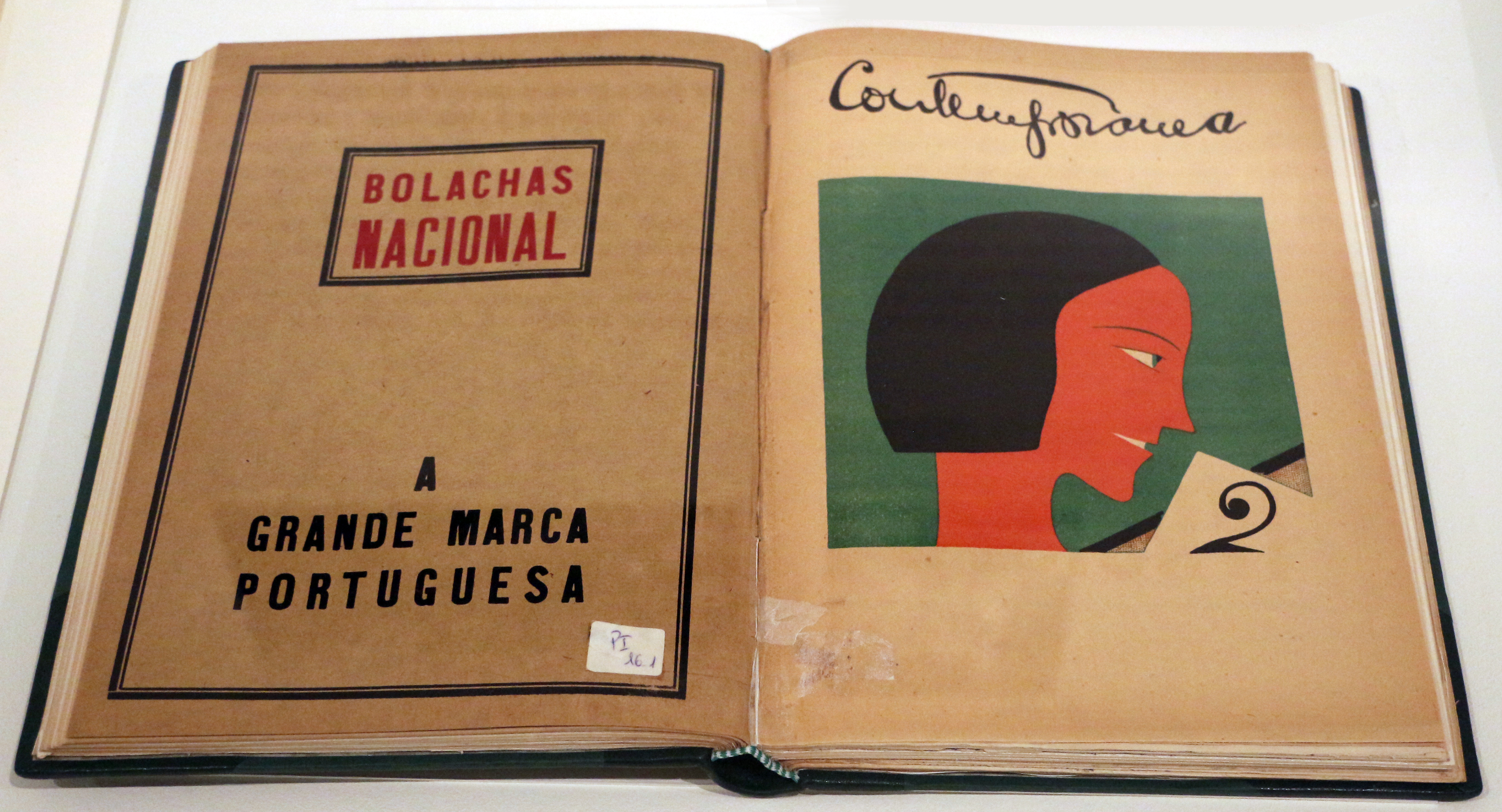 Calouste Gulbenkian Museum